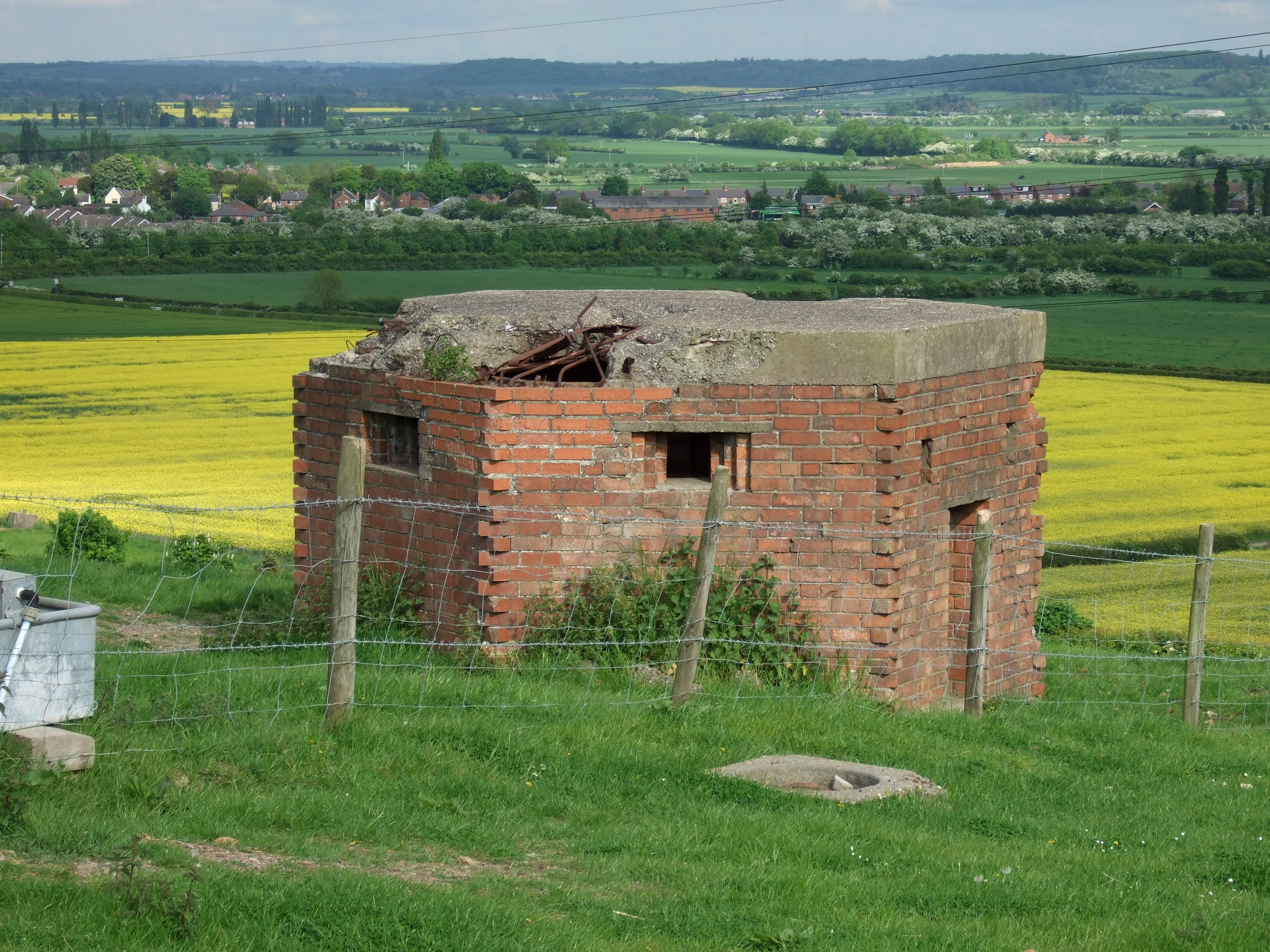 Pillbox Type 22 at Gotham. see also File:Pillbox Gotham closeup.JPG